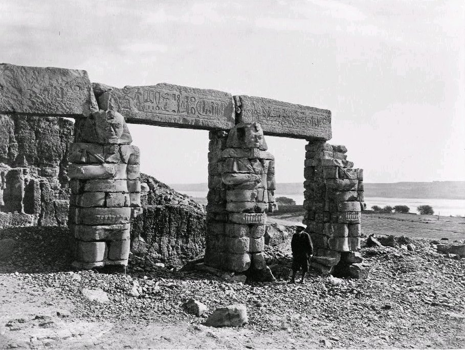 View of Gerf Hussein, before flooding and reconstruction.